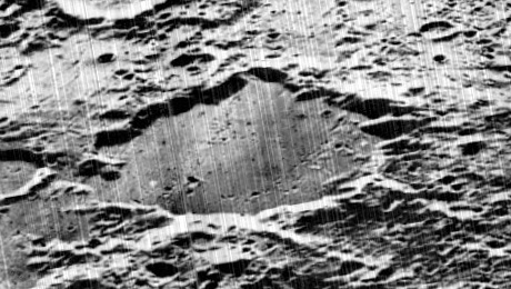 Oblique view of Nishina, on the far side of the moon, facing west.